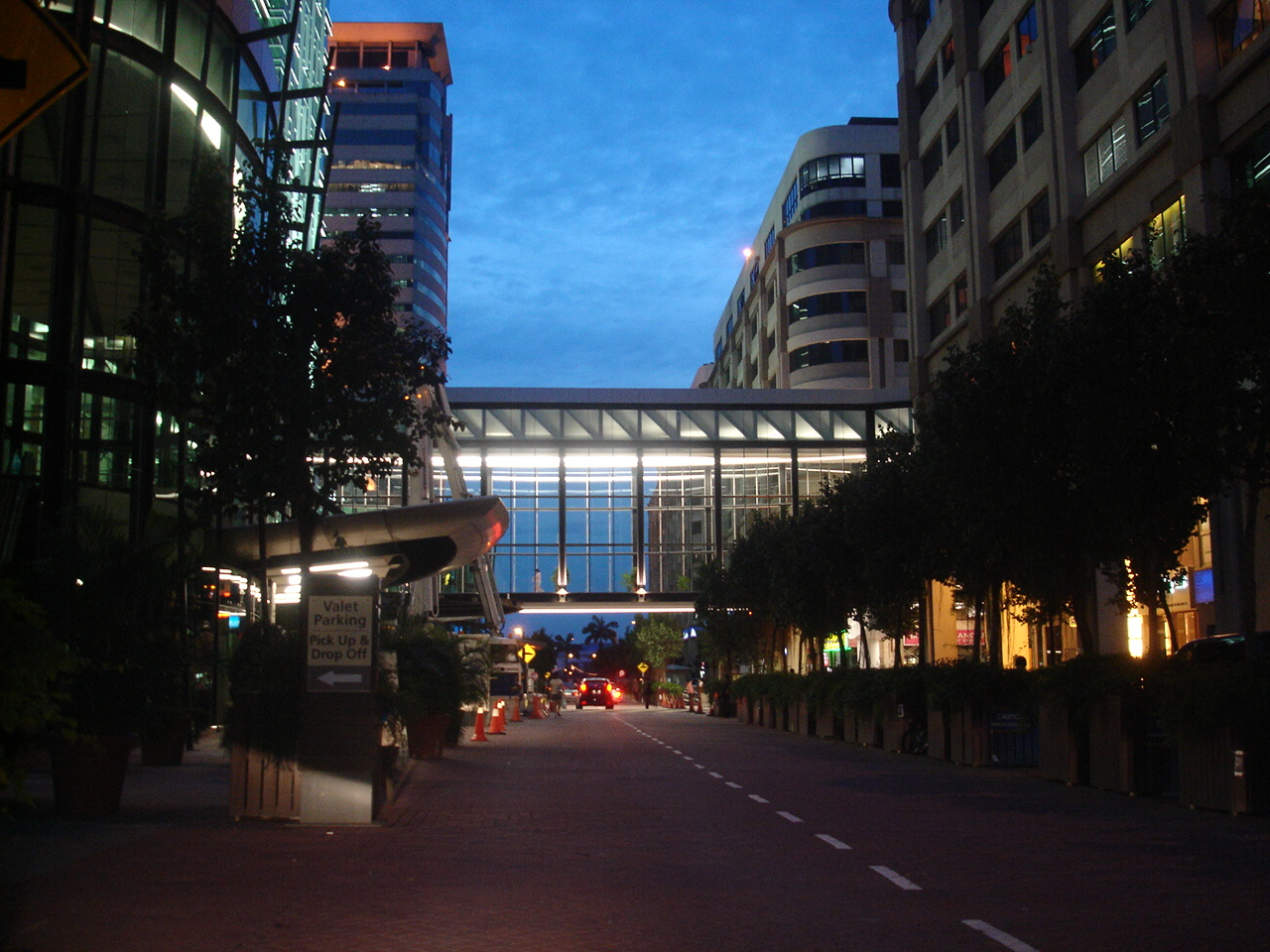 The connecting bridge between Mid Valley Megamall and The Gardens, spanning above the central boulevard.